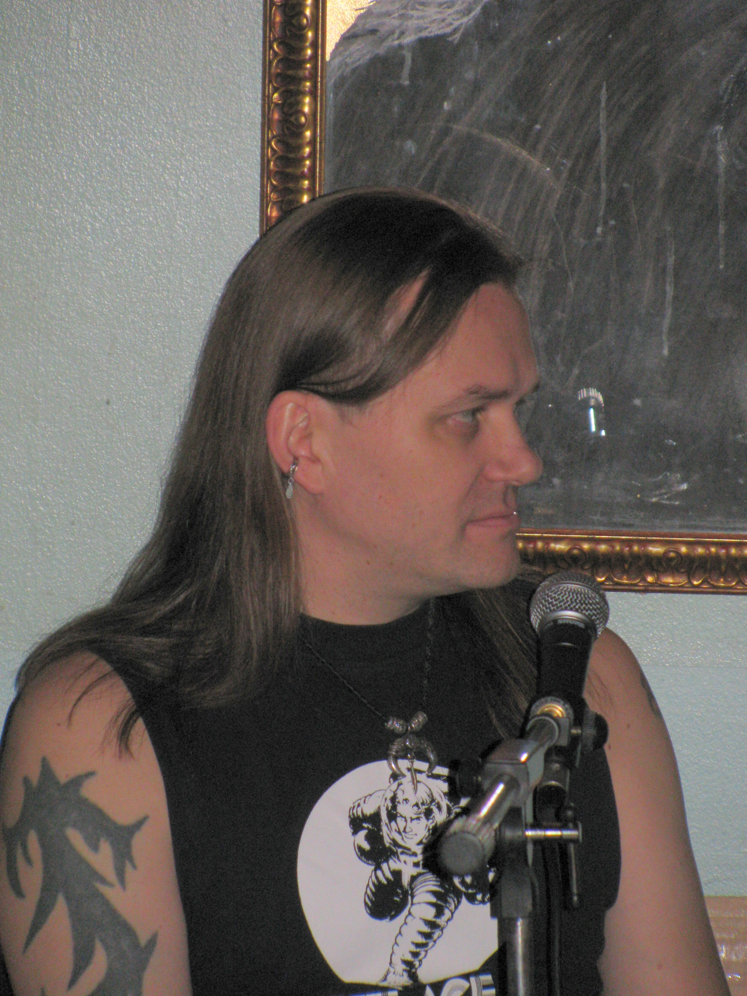 Finnish comic artist Petri Hiltunen at Necrocomicon 2008 in Turku, Finland.